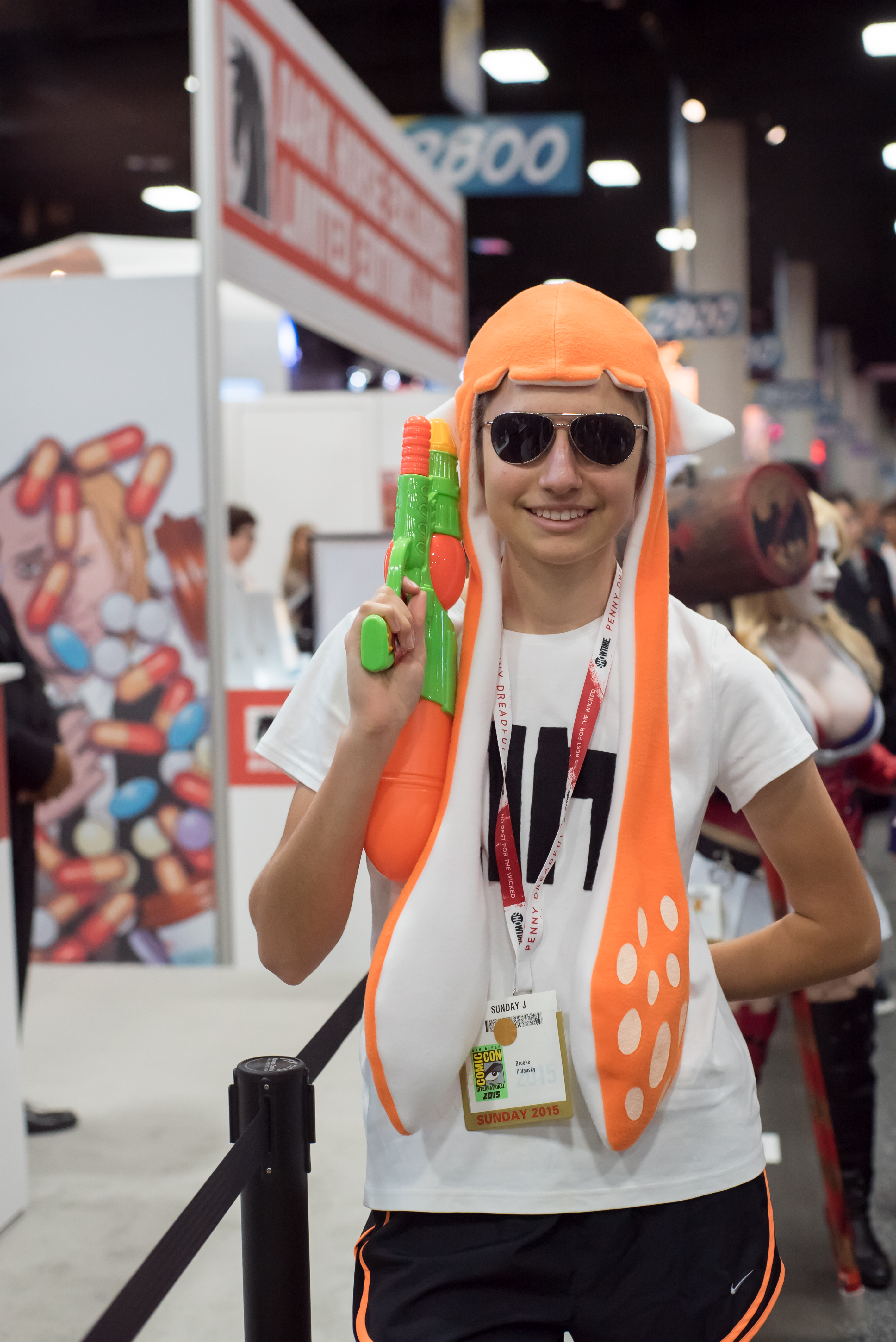 Splatoon cosplay Cosplay at San Diego Comic Con 2015.